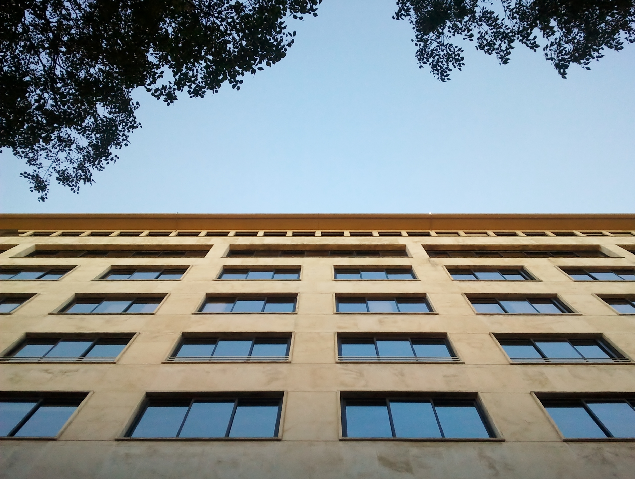 Fiat World Headquarters Complex at Corso Marconi. 10 front view. Torino. Italy